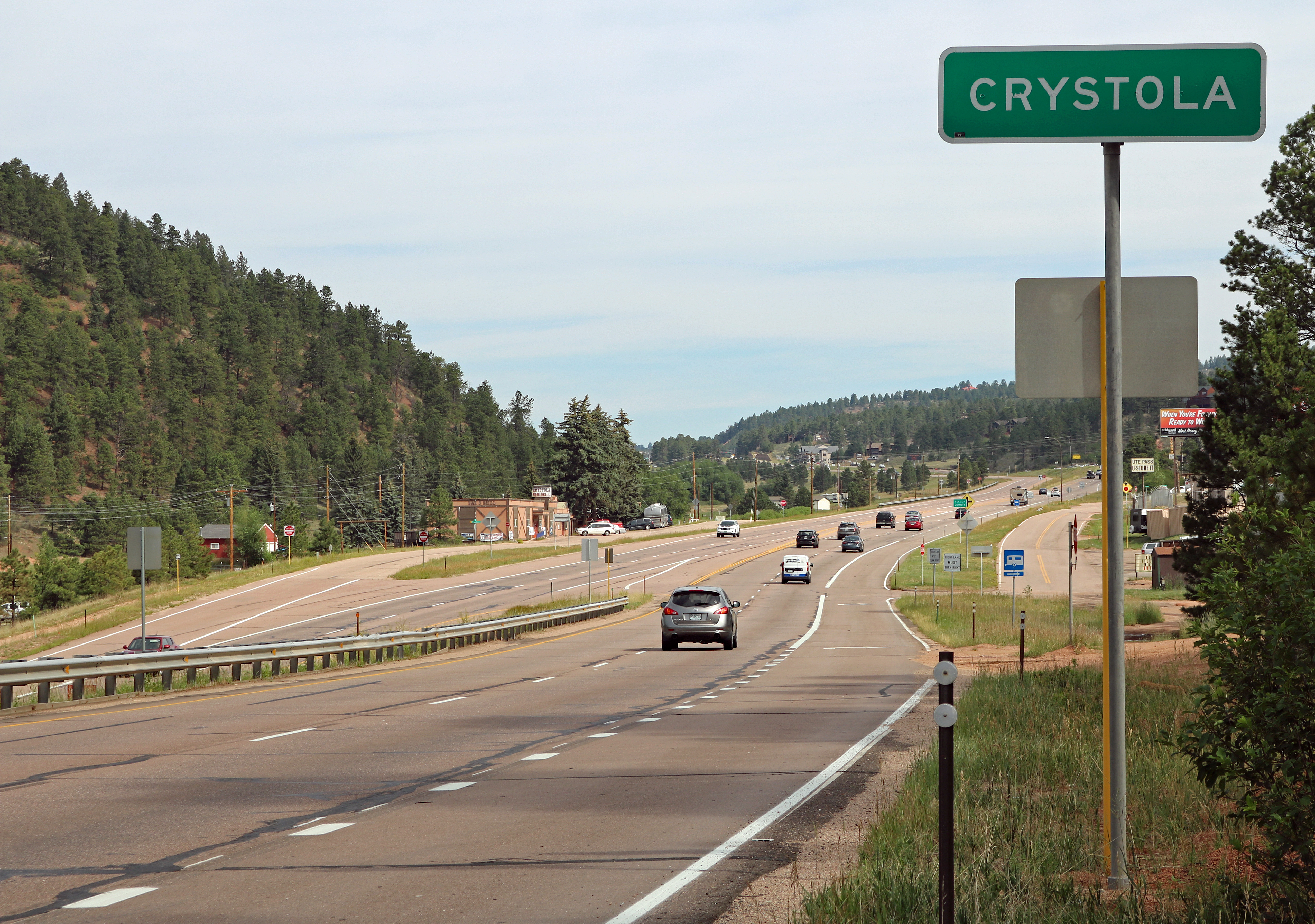 The unincorporated community of Crystola, Colorado, located in El Paso and Teller counties. The highway is U.S. Route 24.